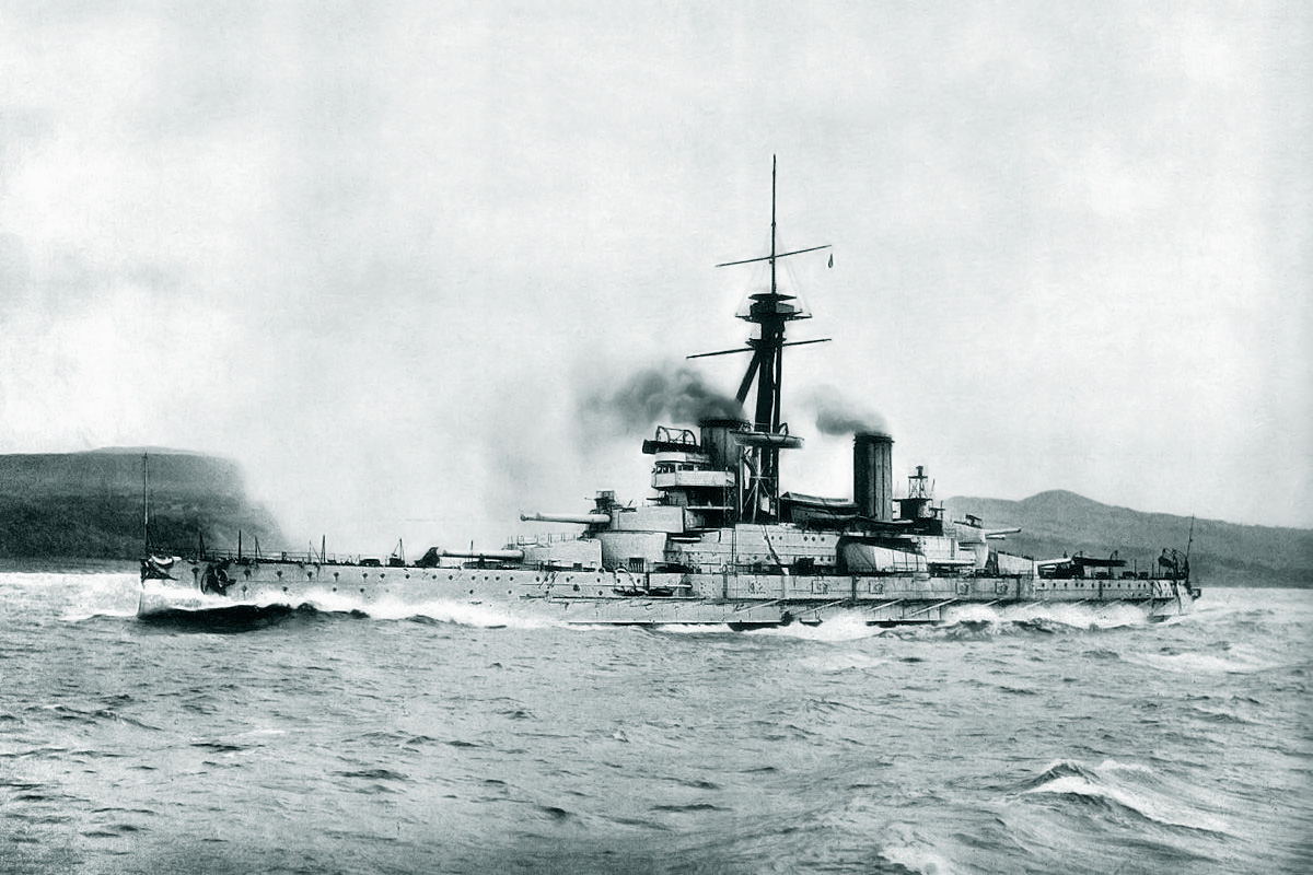 The Brazilian battleship São Paulo on trials, 1910. This photo has also been identified as Minas Geraes in Norman Friedman, Battleship Design and Development (New York: Mayflower Books, 1978), 21.